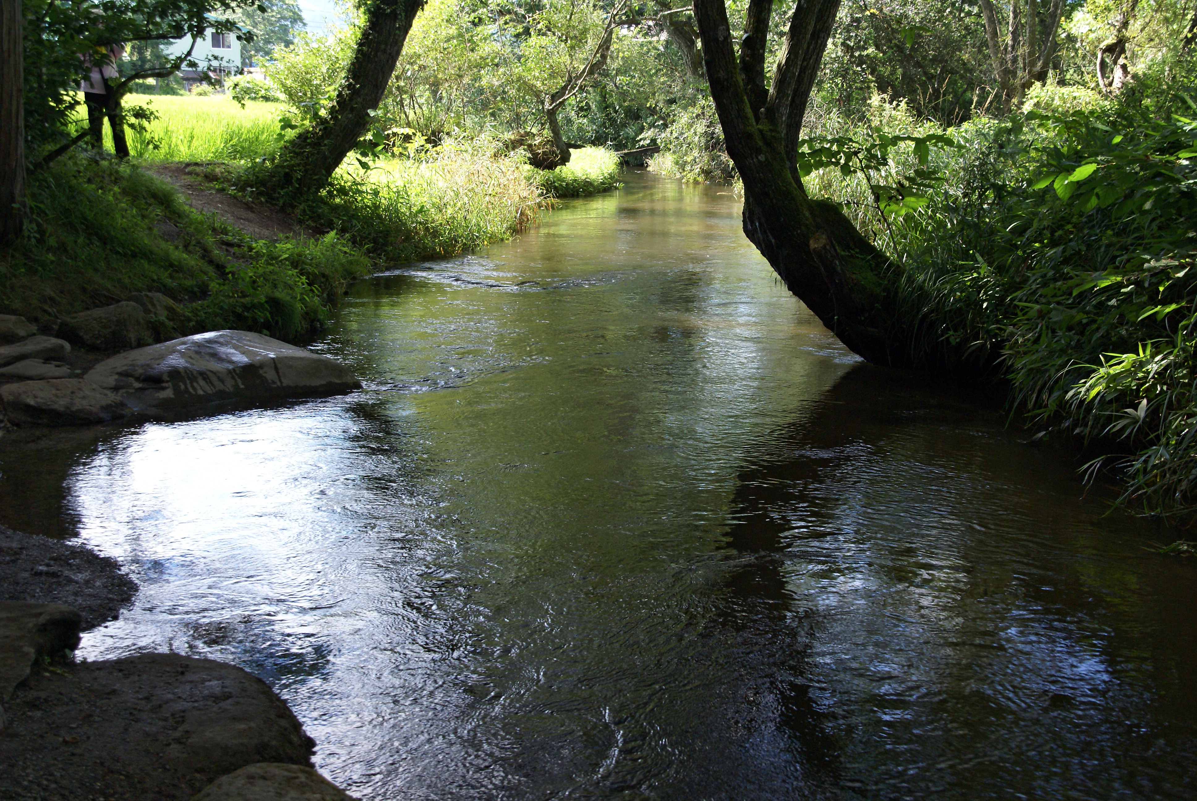 Kappa-buchi in Tono, Iwate prefecture, Japan